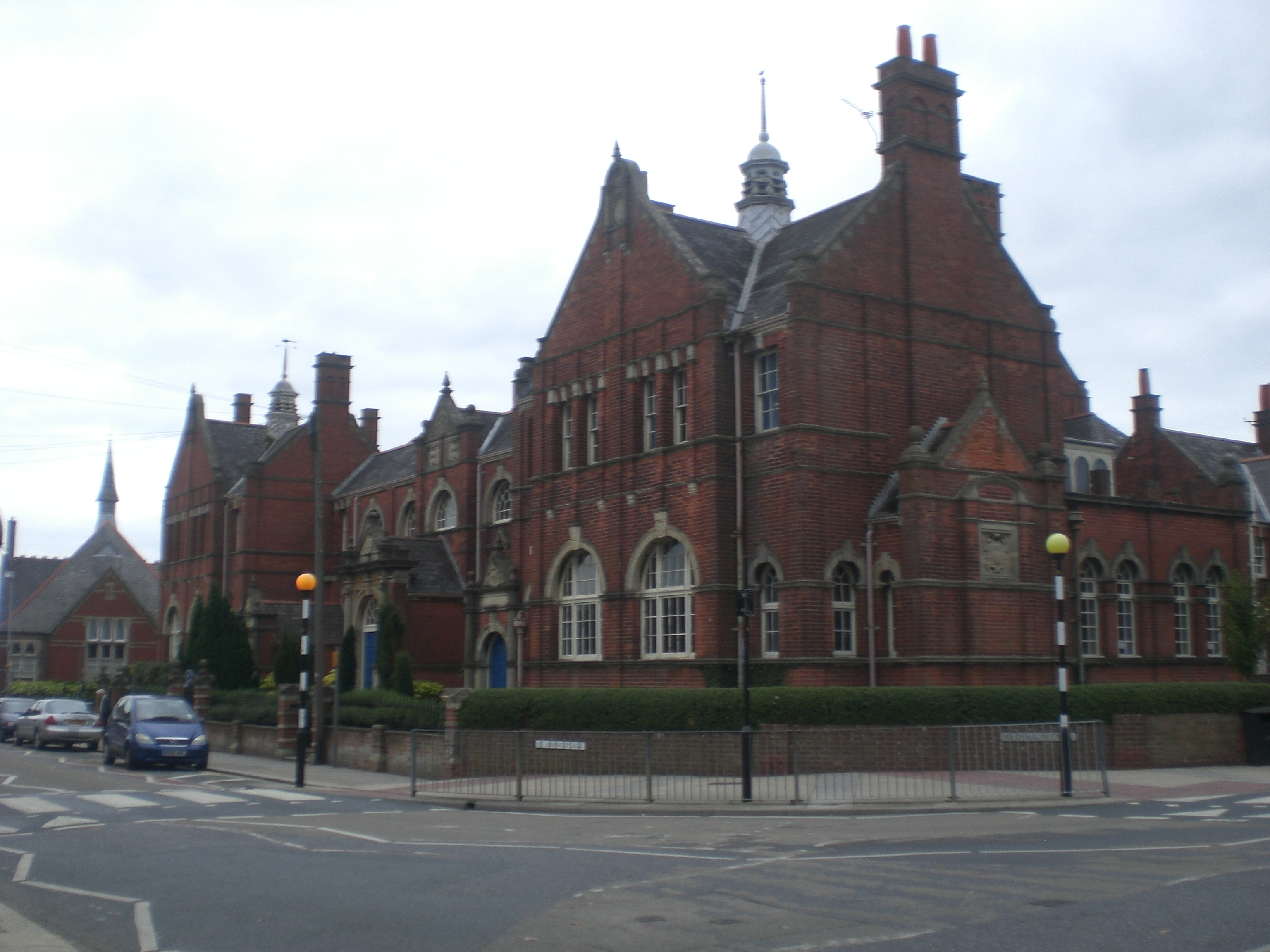 Nodehill Middle School in Newport on the Isle of Wight.